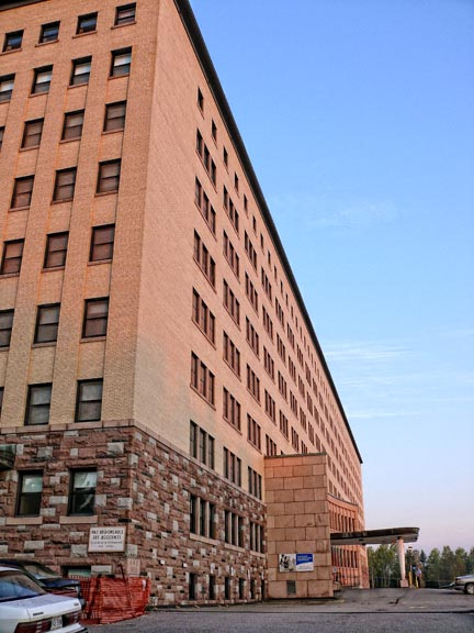 Le CSSS d'Antoine-Labelle - centre de Rivière-Rouge.